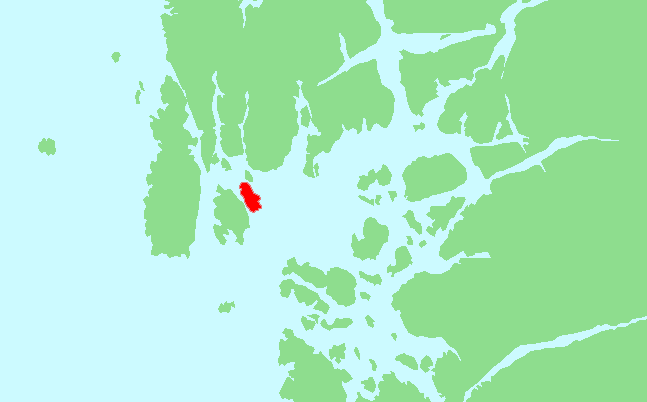 Locator map of Austre Bokn, Rogaland, Norway